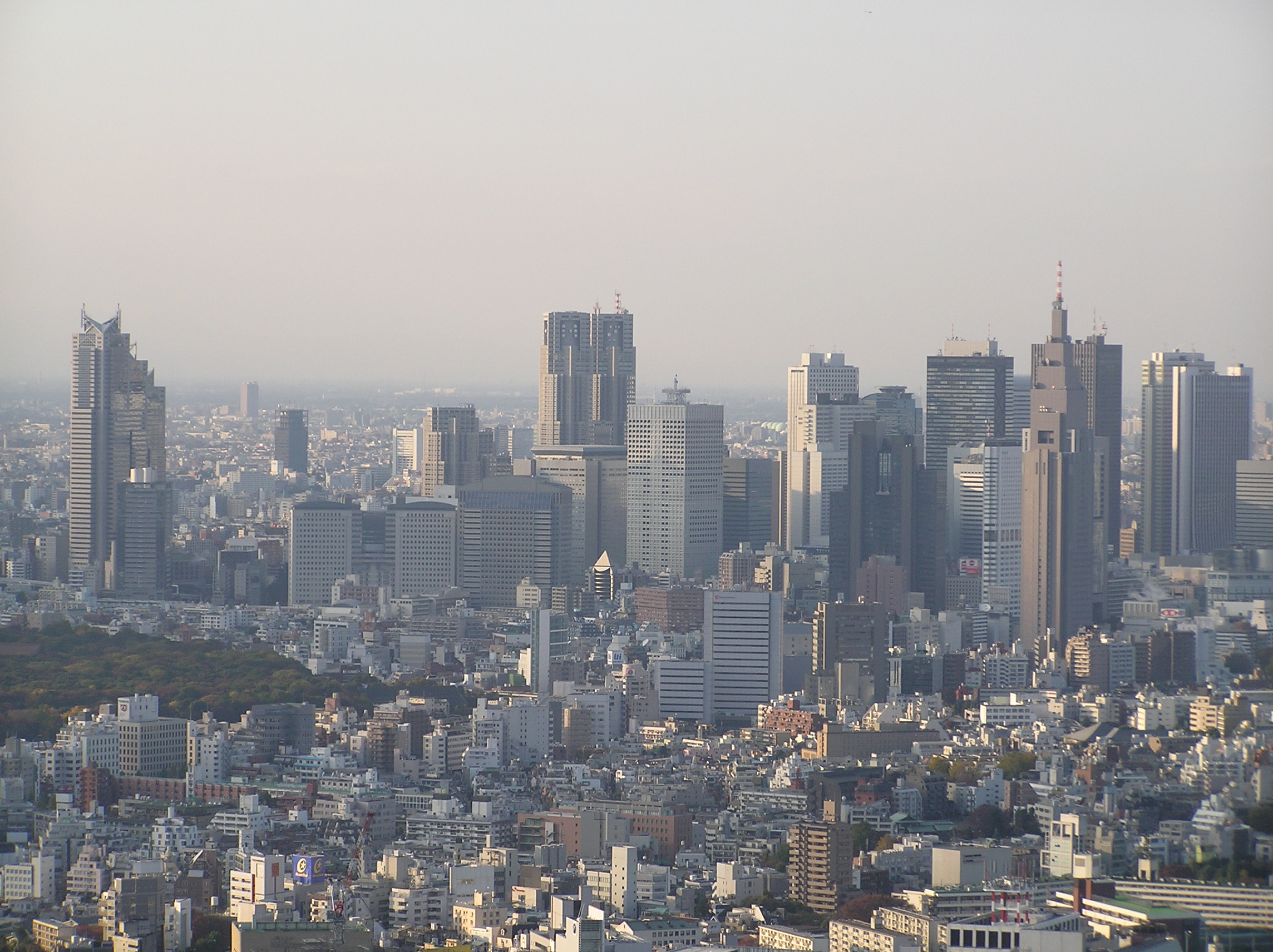 Skyscrapers of Shinjuku